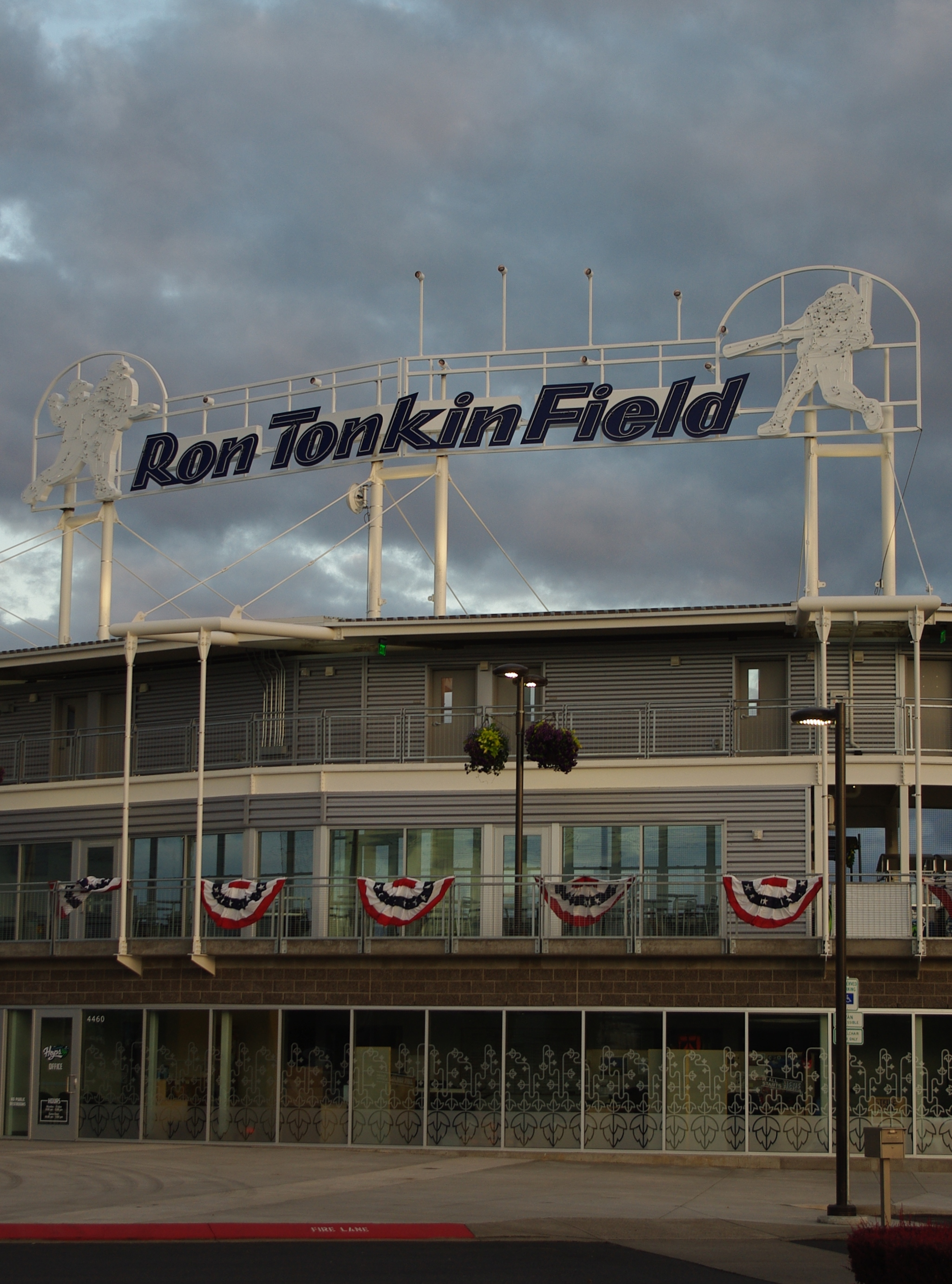 Ron Tonkin Field in Hillsboro, Oregon.